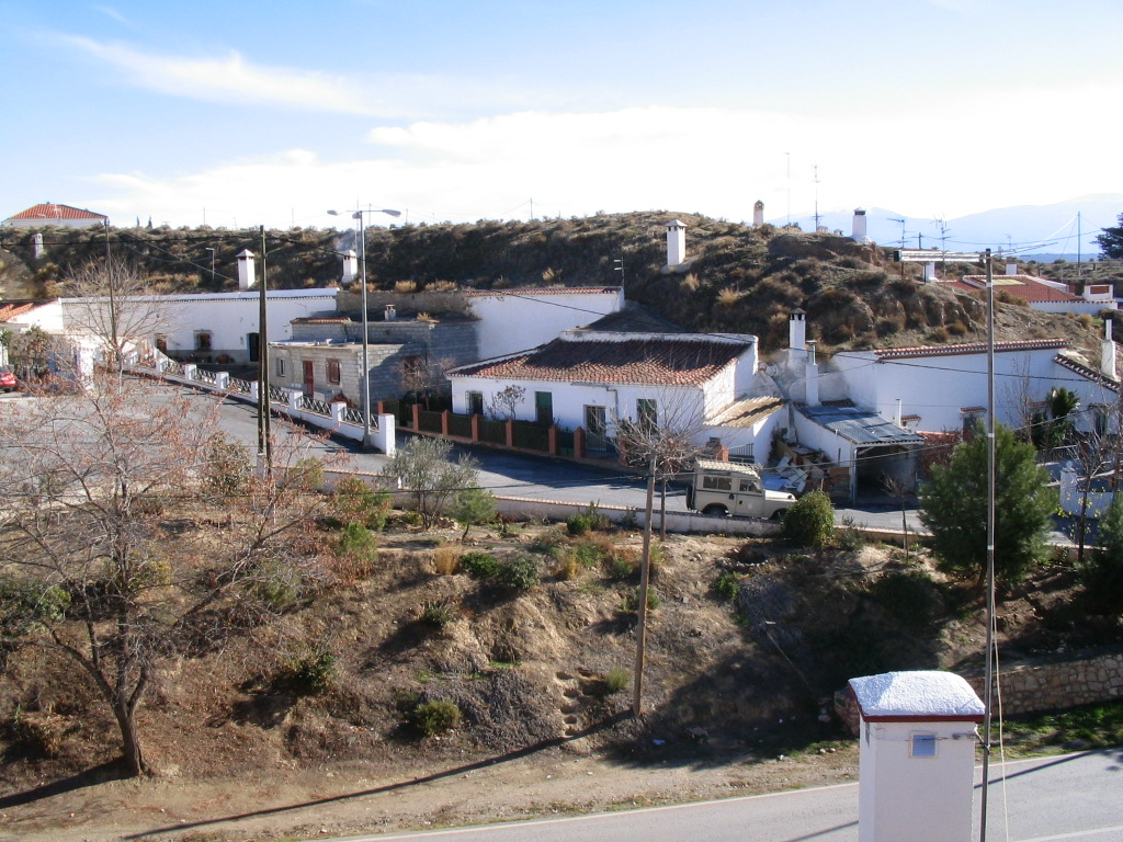 Cuevas habitadas en Guadix (provincia de Granada, España). Yo, el autor de este trabajo, lo publico por este medio bajo la siguiente licencia dominio publico This work has been released into the public domain by its author, Monmagan at Spanish Wikipedia. This applies worldwide.In some countries this may not be legally possible; if so:Monmagan grants anyone the right to use this work for any purpose, without any conditions, unless such conditions are required by law.